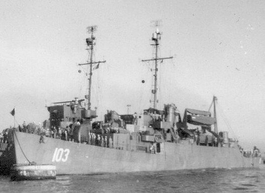 The U.S. Navy high-speed transport USS Tollberg (APD-103) at anchor, in December 1945.